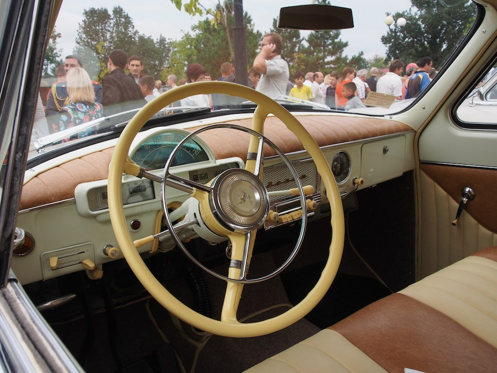 Volga in Tiraspol, Transnistria